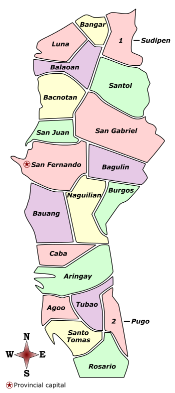 Labelled colored map of the province of La Union, showing its component city and municipalities.